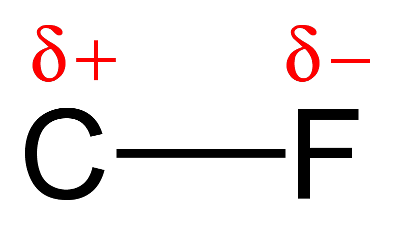 Diagram illustrating the polarity of a general carbon-fluorine bond, with a partial positive charge on carbon (δ+) and a partial negative charge of fluorine (δ−).